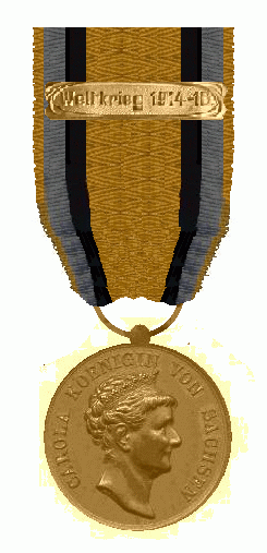 Carola Medal of Sachsen